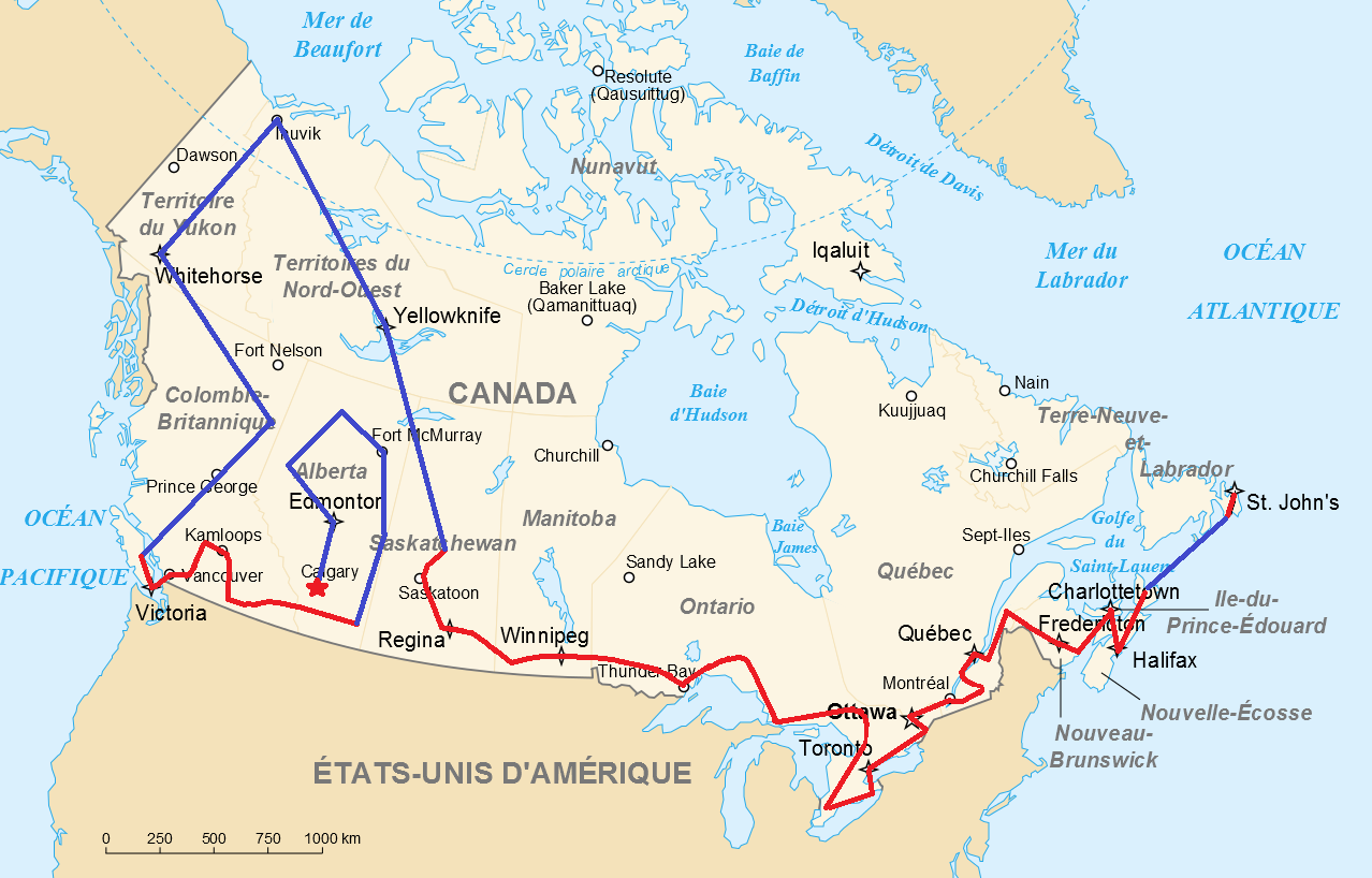 Torch relay of the w:1988 Winter Olympics as at the report of this games. Red = on land Blue = by airplane